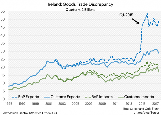 Shows the effect of Apple's 2015 "leprechaun economics" restructuring on Ireland's overall economic statistics.